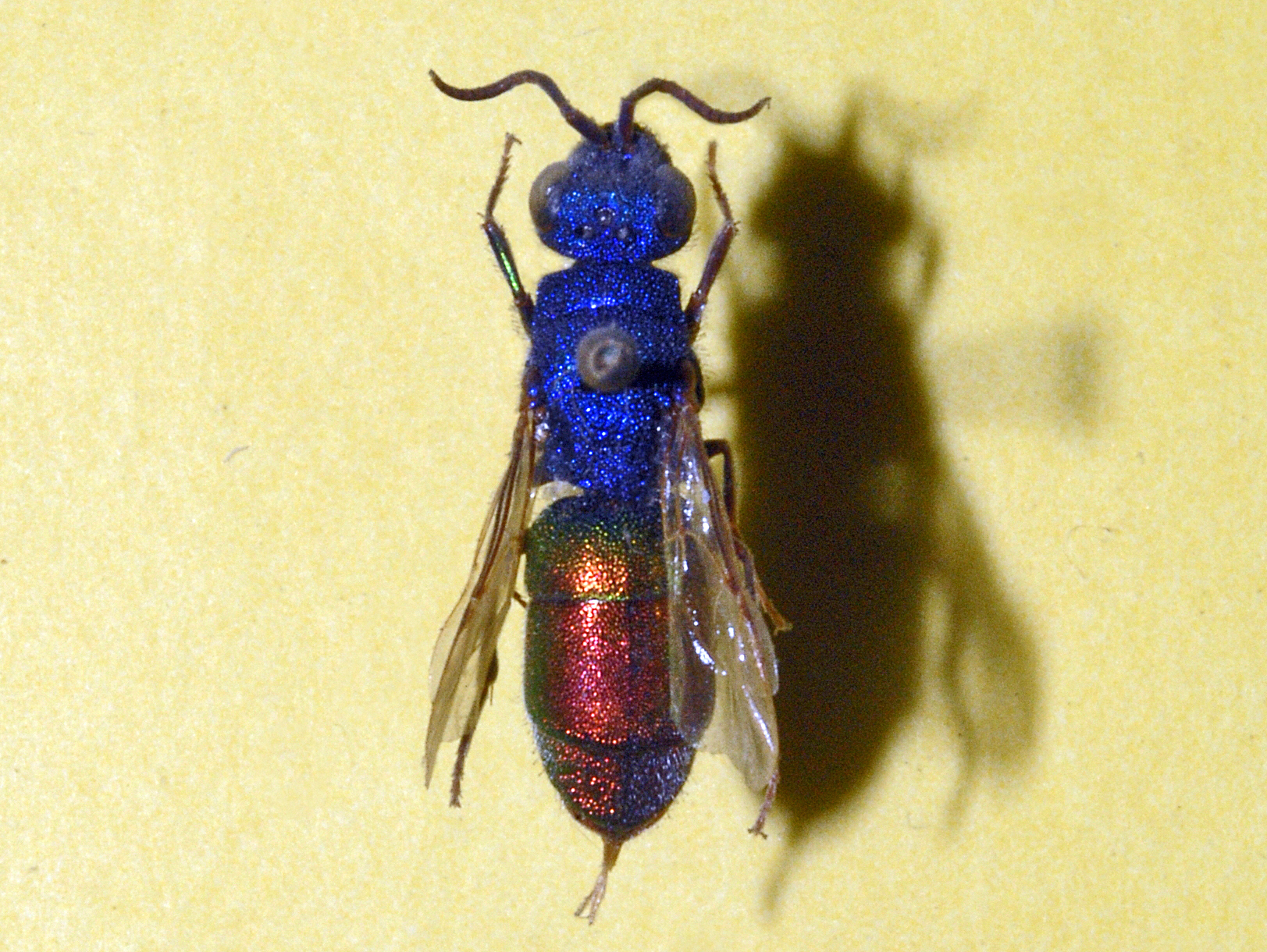 Chrysura refulgens. Museum specimen